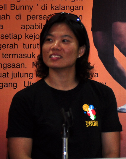 Sharon Wee, Delia Arnold and Low Wee Wern during the Squash Stars Meet the Stars session in 2010.